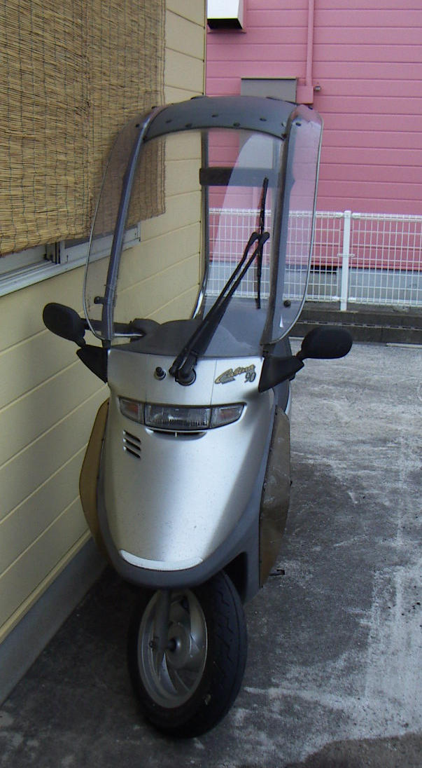 Cabina 90, manufactured by Honda Motor Co.,Ltd.